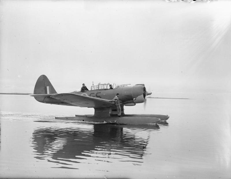 IWM caption: ROYAL AIR FORCE COASTAL COMMAND, 1939-1945. A Northrop N3P-B of No. 330 (Norwegian) Squadron RAF, is taxied out on the water at Akureyri, Iceland, for a patrol. stands on one of the floats to check the running of the engine.